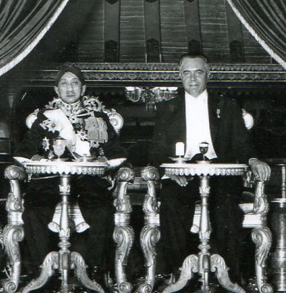 Sultan Hamengkubuwono VIII and governor Lucien Adam of Yogyakarta